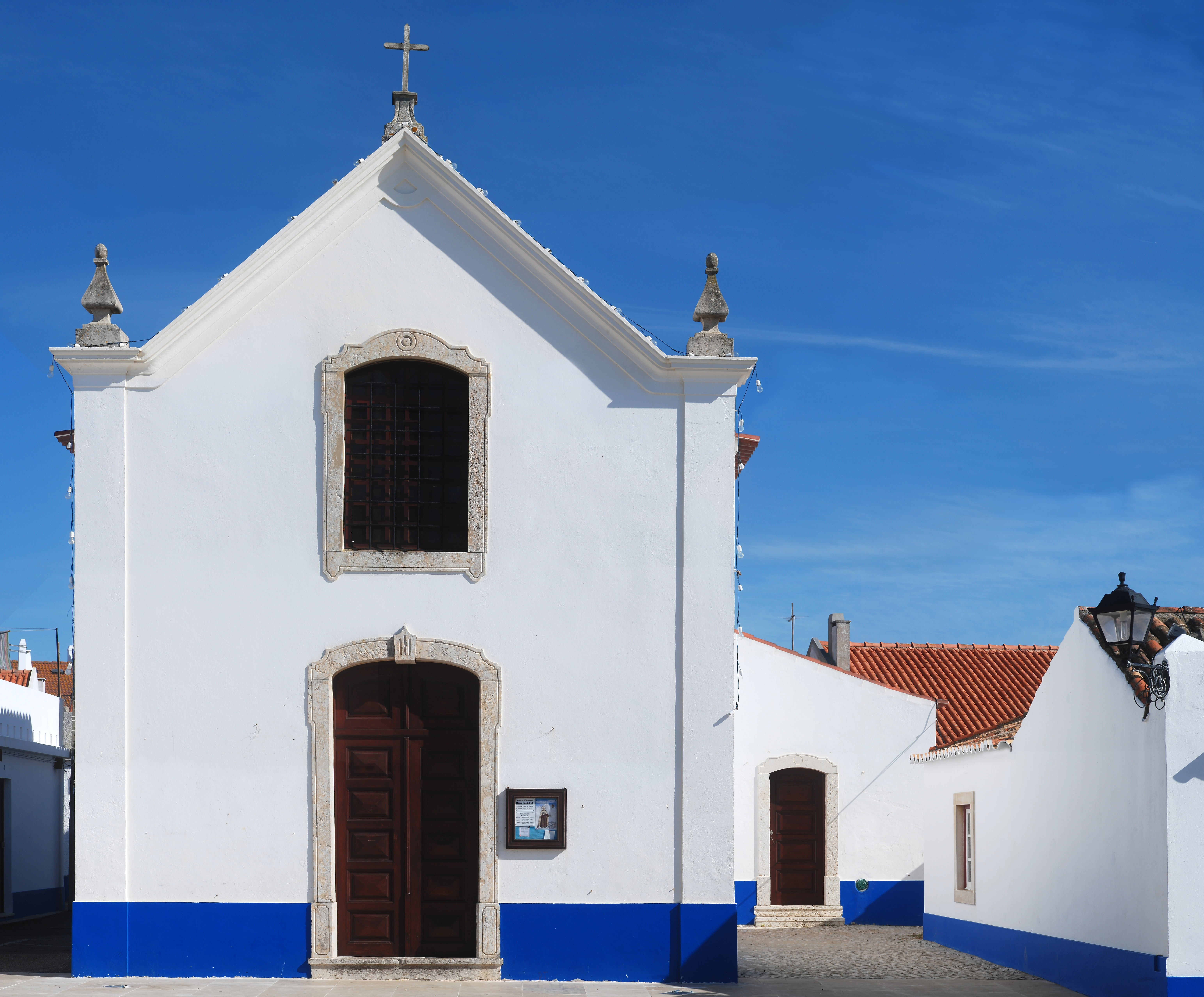 The church of Porto Covo, west coast of Portugal